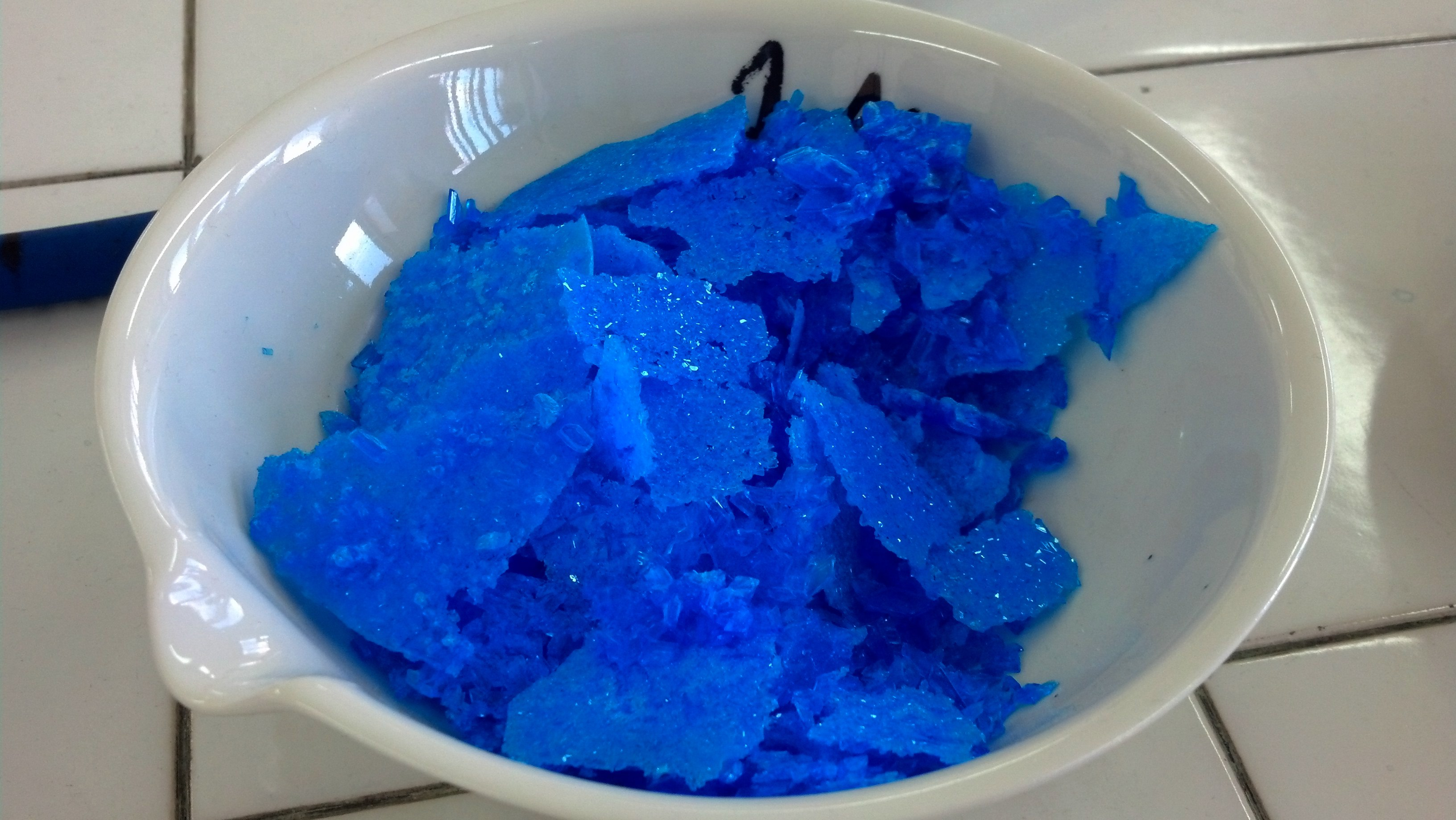 Crystals of CuSO4•5H2O. I.T.T. L. Dell'Erba Castellana Grotte BA